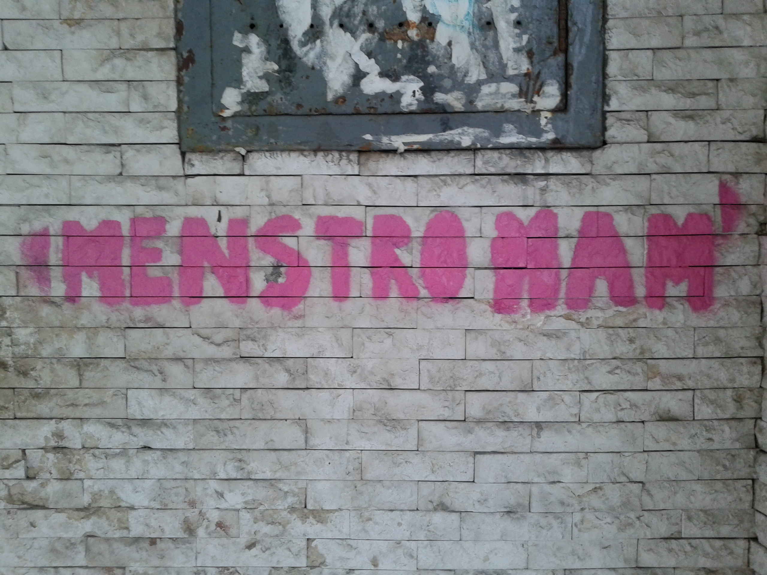 I Am Menstruating / I Have My Period - Graffiti stencil in Slovene language in Ljubljana